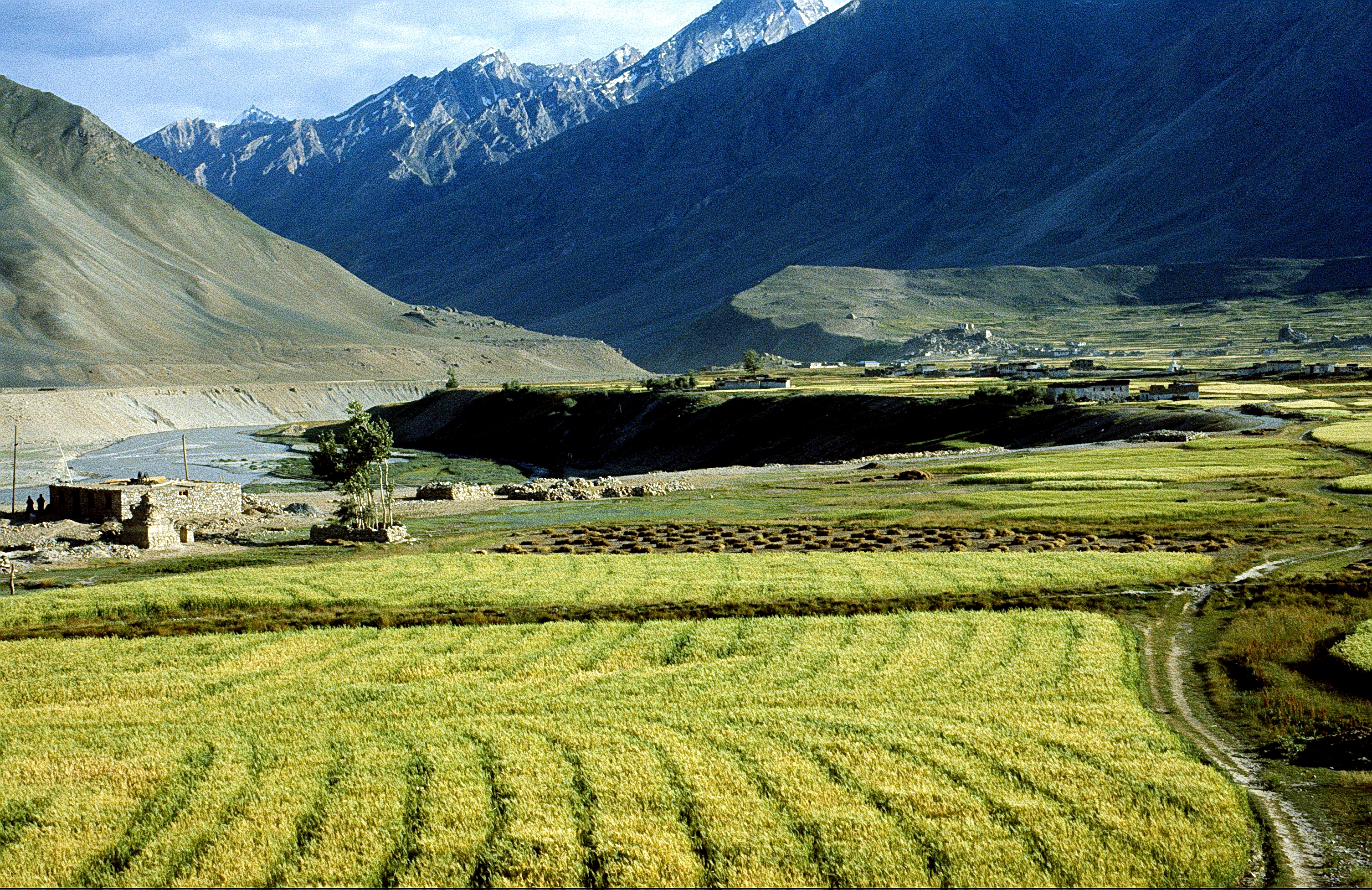 The way from Pibiting to Padum along Lungnak river, Zanskar/Ladakh.